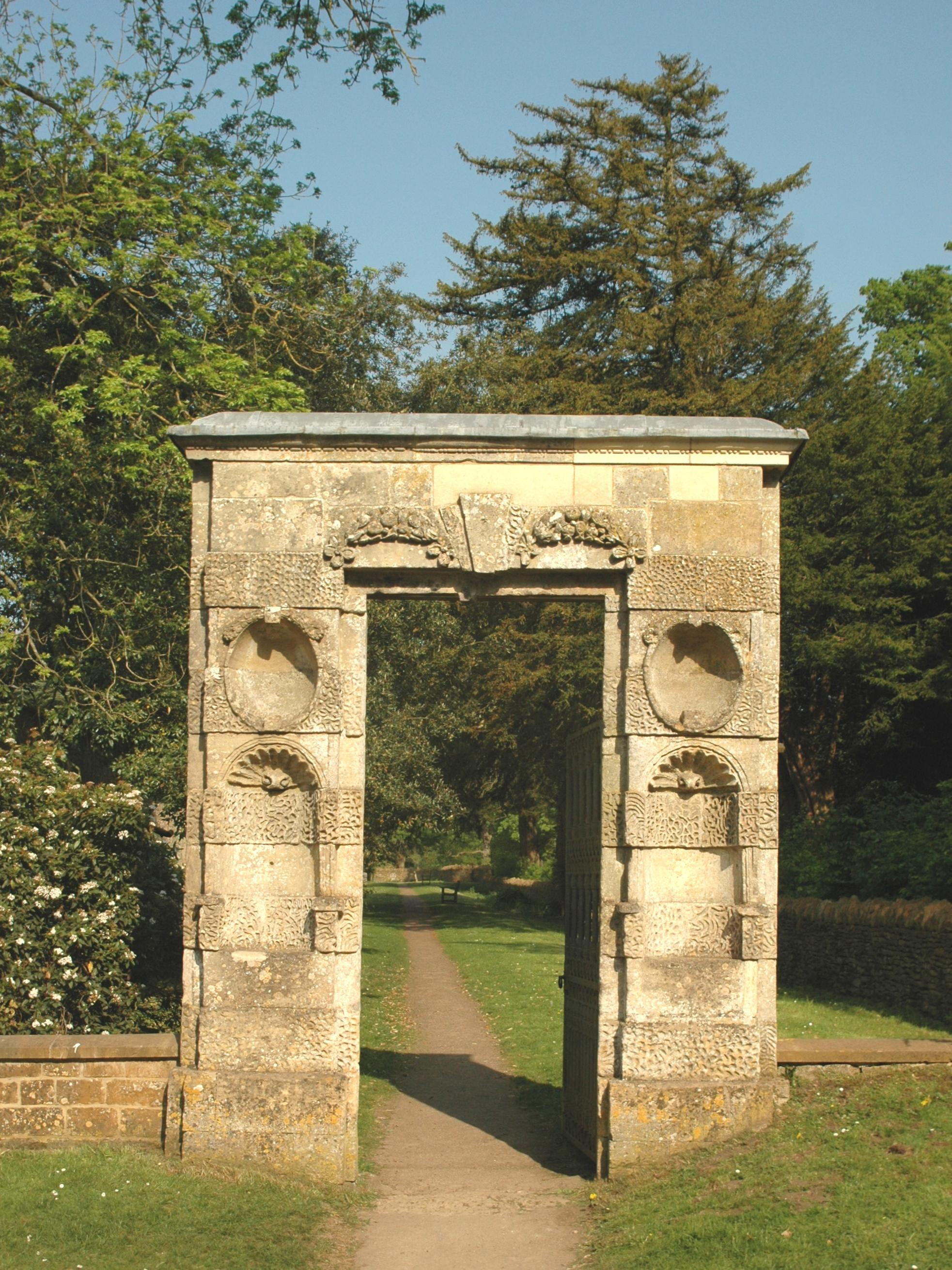 17th century gateway to the Church of England parish church of St Michael and All Angels, Great Tew, Oxfordshire